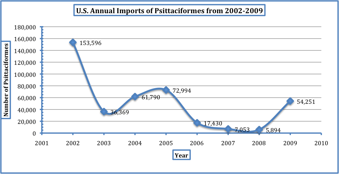 U.S. Parrot Trade Data